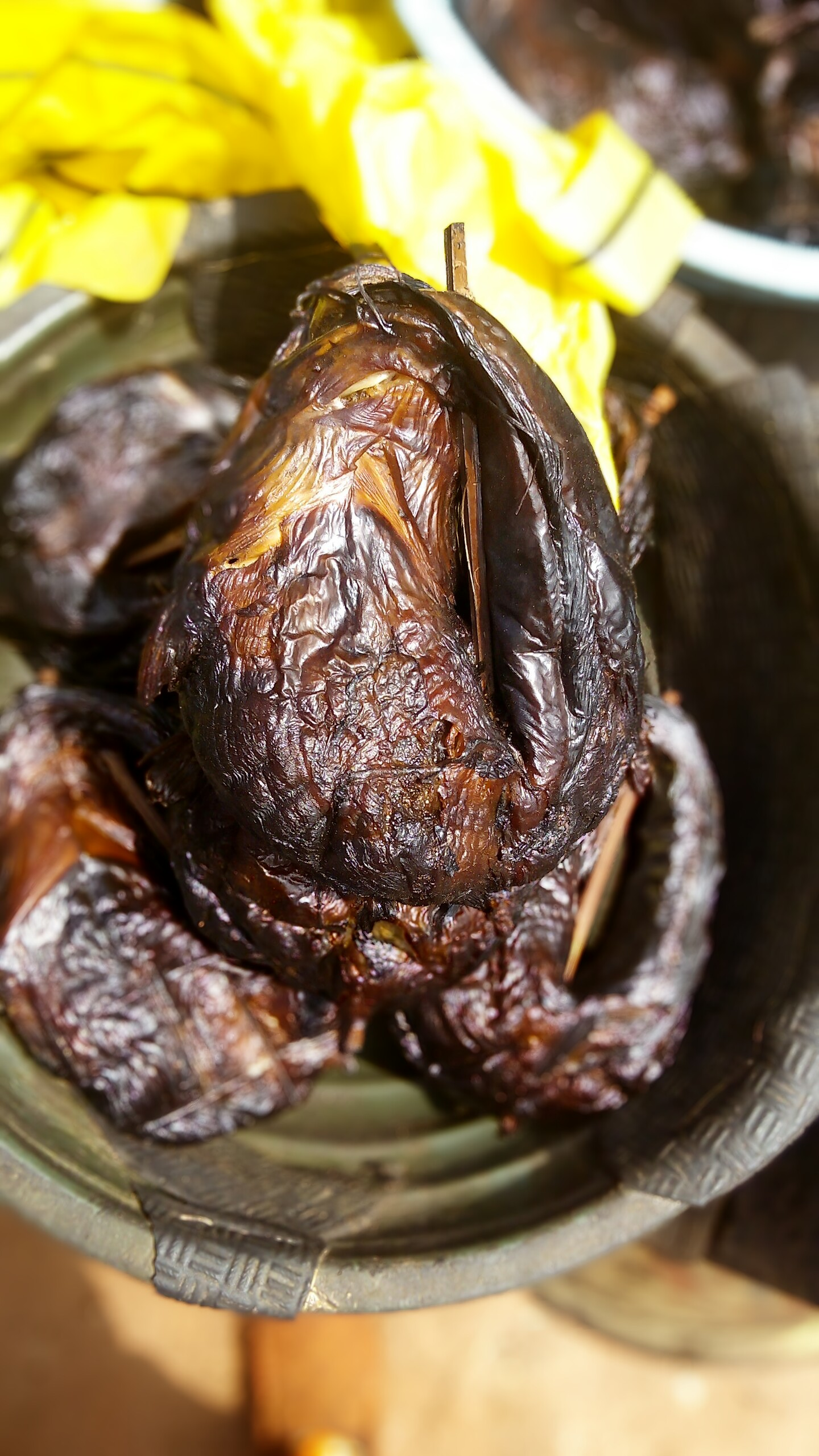 Dried stock fish from lokoja, kogi state. This is an image of Cultural Fashion or Adornment from Nigeria